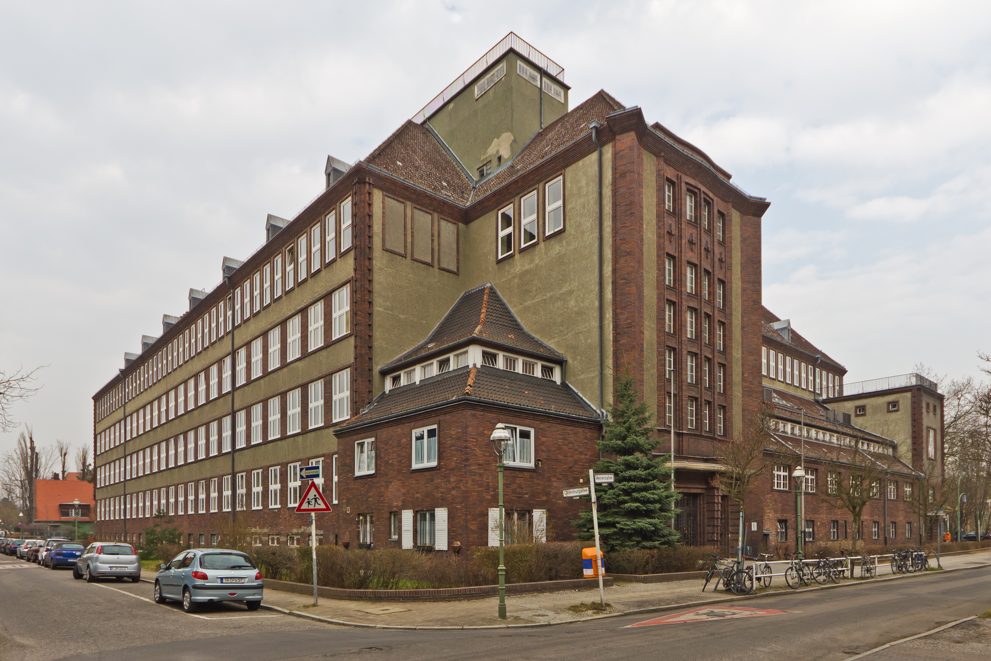 The Herder School in Berlin-Westend, Germany